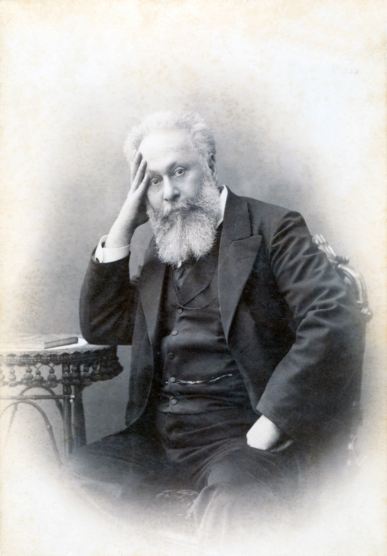 Georgian poet and national liberation movement figure Akaki Tsereteli, photographed no later than 1915 in Tbilisi